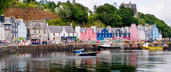 Tobermory Waterfront, Isle of Mull, Scotland